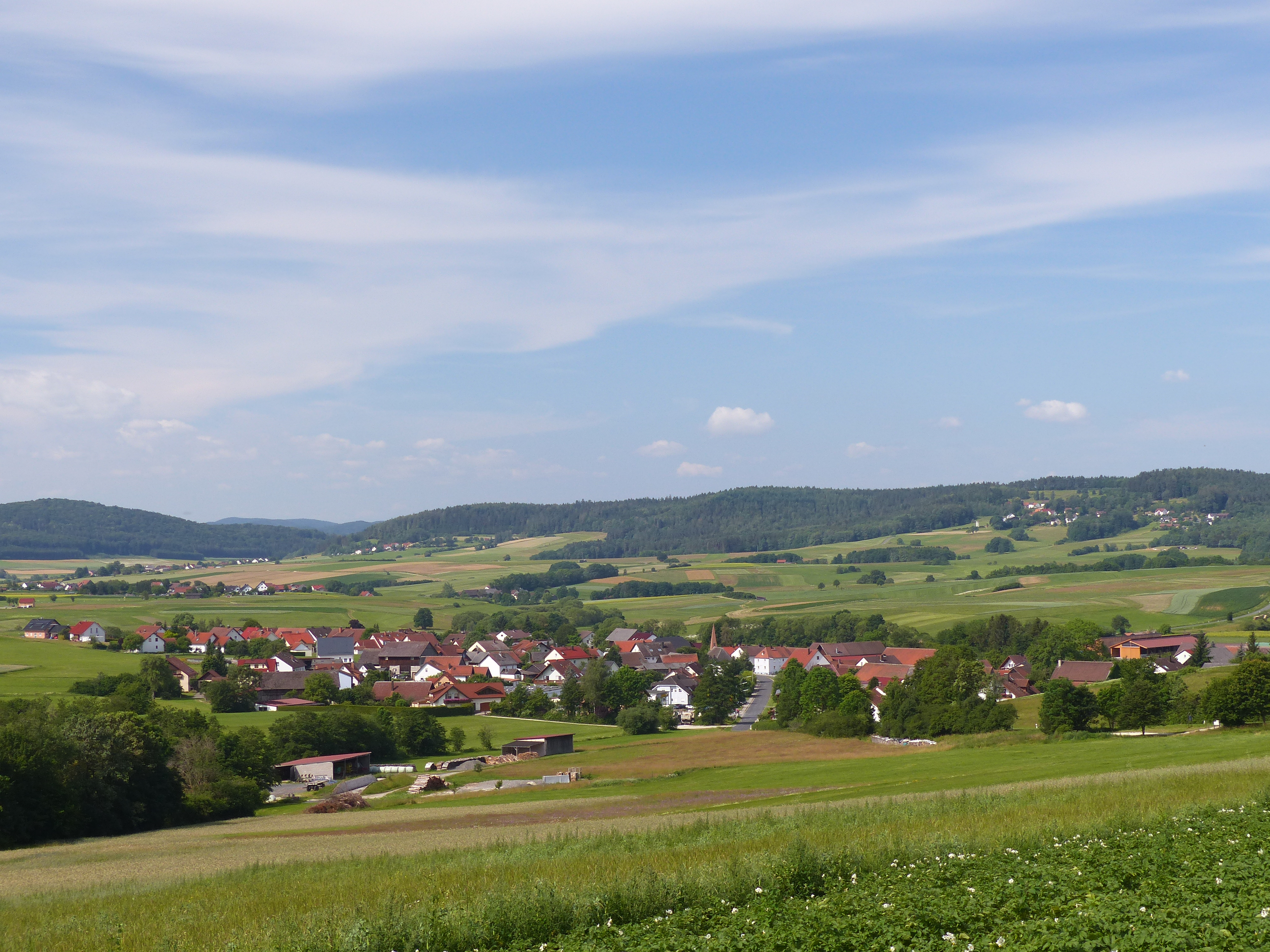 The village Körzendorf, a district of the municipality of Ahorntal.